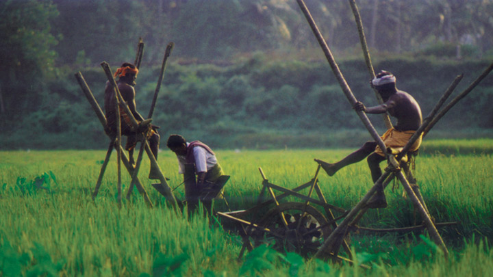 Farmers working on traditional water turbines manually to draw water to their rice fields.